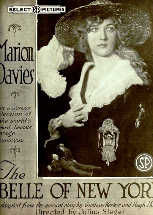 Ad for the American film The Belle of New York (1919) with Marion Davies, on page 1267 of the March 8, 1919 Moving Picture World. This copy was apparently clipped when printed or oversized for the page.